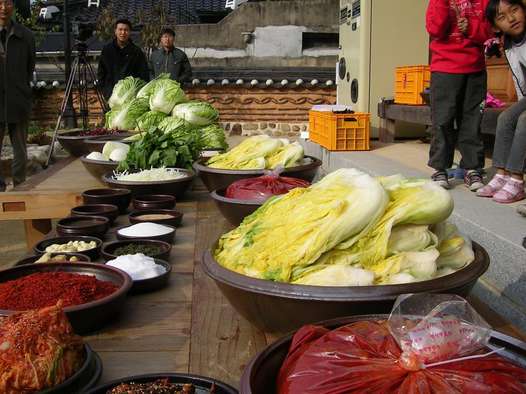 Gimjang, or preparation for making kimchi. Photo taken in South Korea